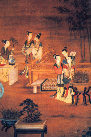 Ming-Ladies